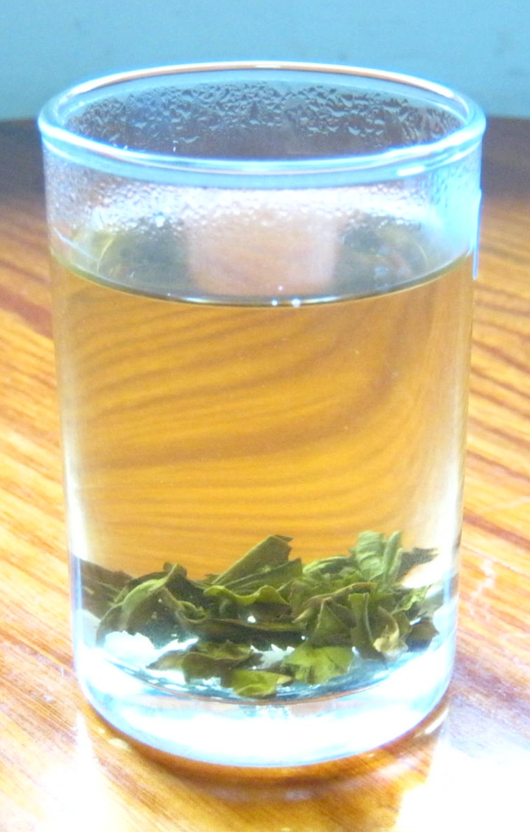 DaHongPao Tea (大红袍), sold in NanPing, FuJian province.